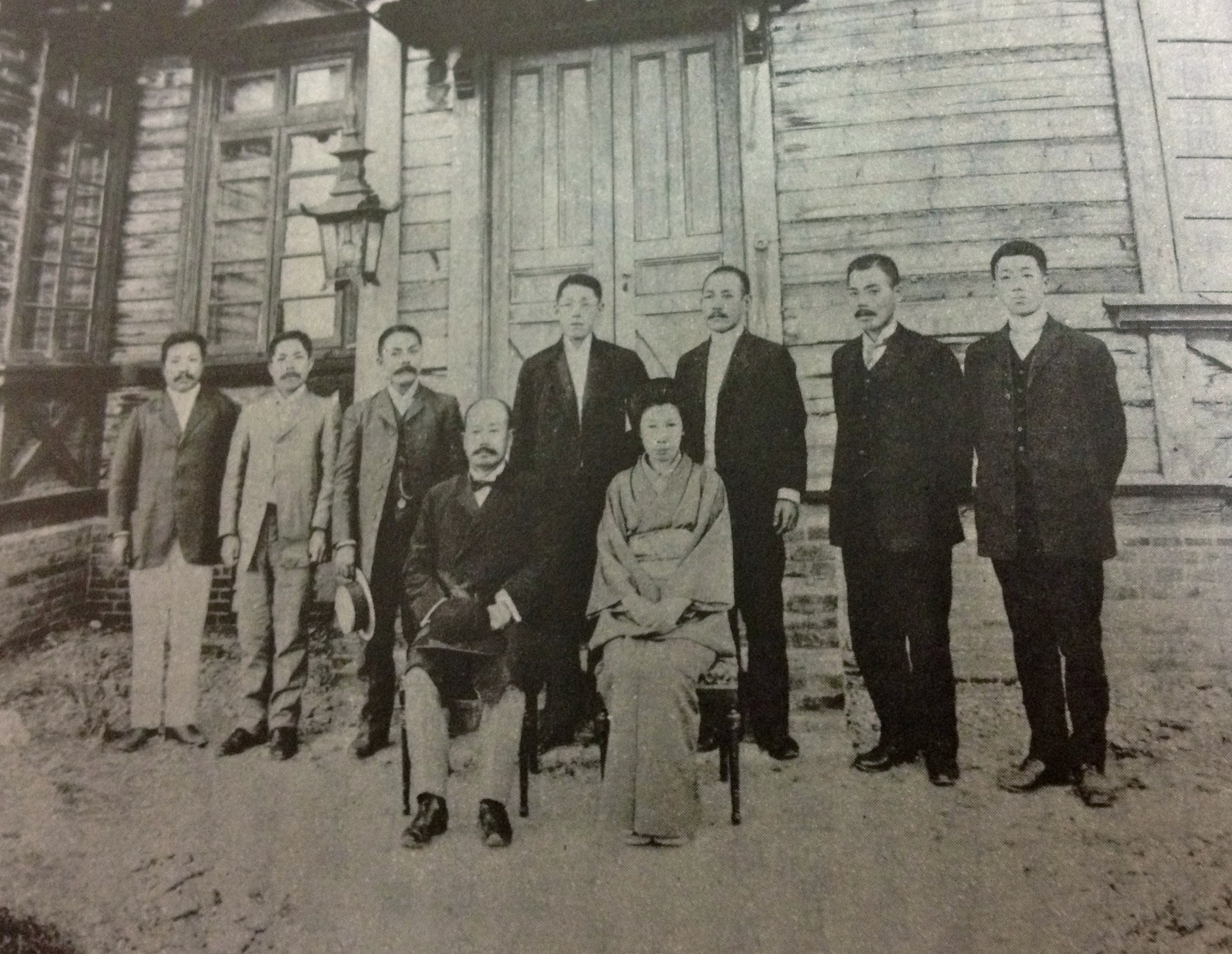 Officials in front of a government building in Sakhalin. The photo was taken around 1910.